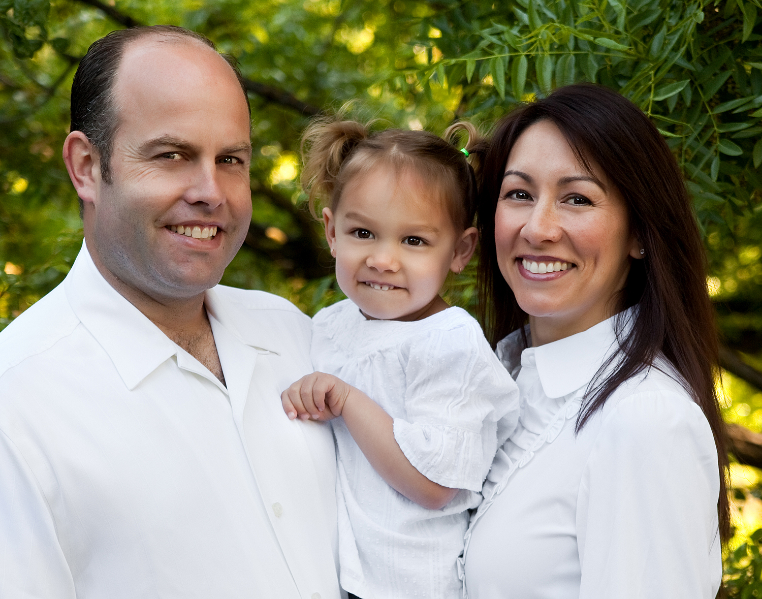 Tiffany Estrella Attwood Family Picture for